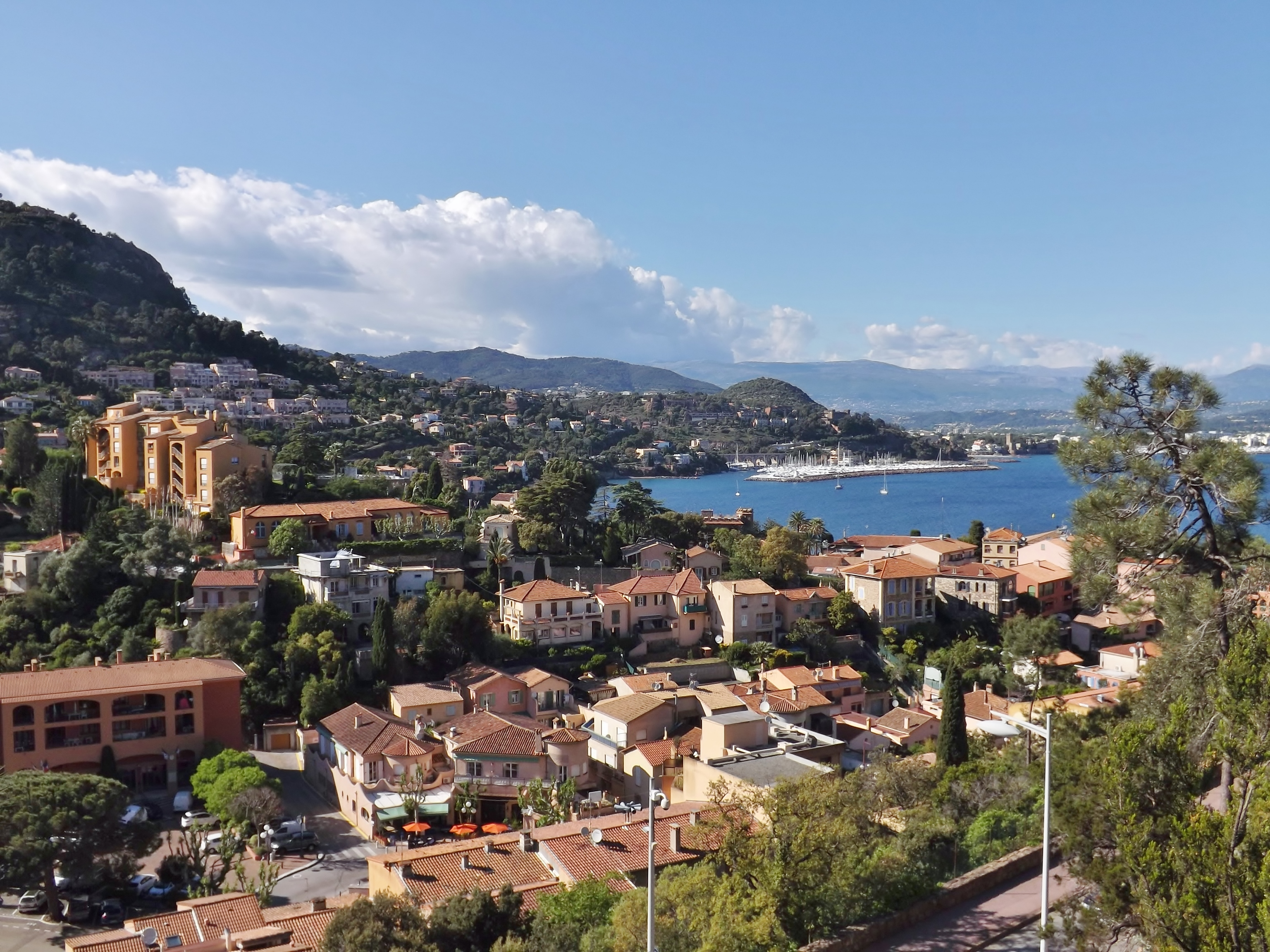 Sight of the French commune and village of Théoule-sur-Mer, with Mandelieu-la-Napoule at the background, on the Riviera Coast, in Alpes-Maritimes.